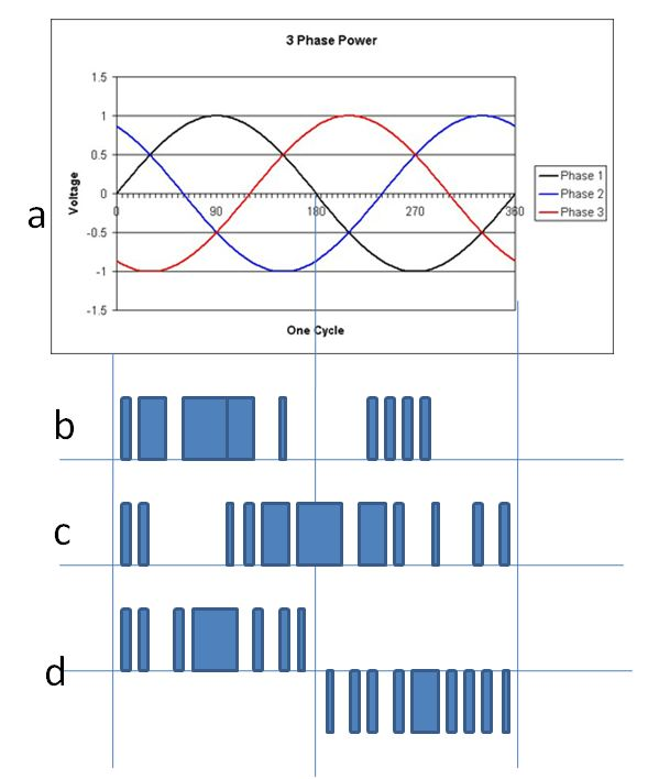 Synchronized-Pulse-Width-Modulation Waveforms for a Three-Phase Current Source Inverter